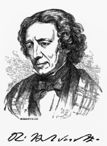 Engraving of American writer and historian Richard Hildreth (1807-1865), with replicated signature. Published in the Cyclopædia of American Literature edited by George L. and Evert Augustus Duyckinck (updated by M. Laird Simons ). Philadelphia: Wm. Rutter and Co., 1875: Vol II, page 298